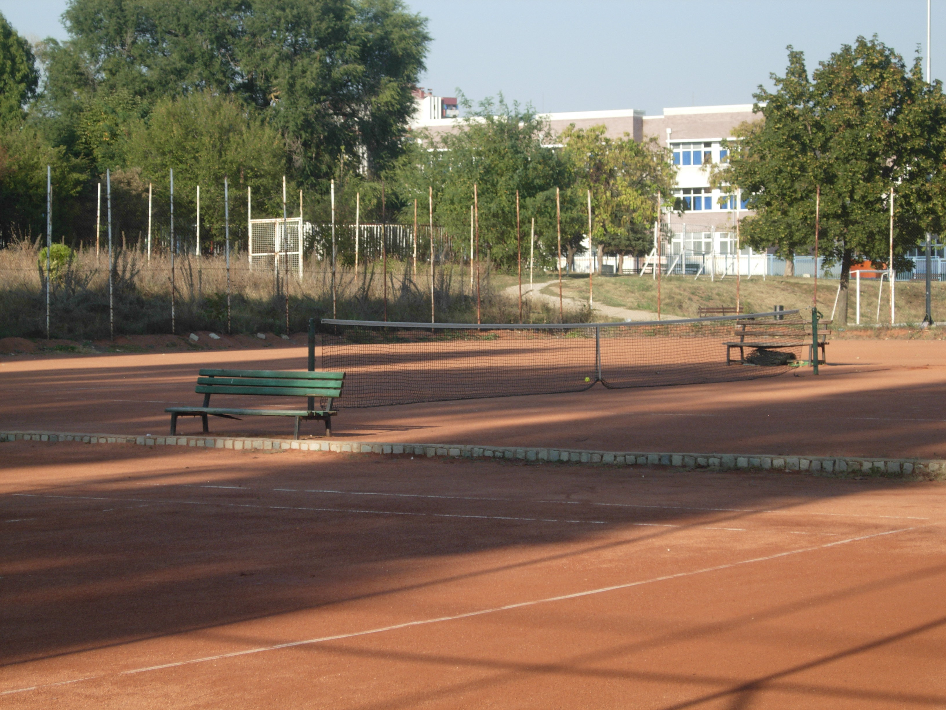 Tennis court in Vranje, 2018 Српски (ћирилица): Тениски терен у Врању, 2018.